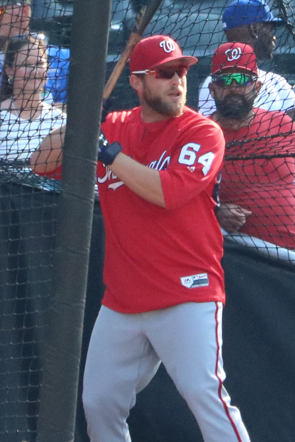 Spencer Kieboom takes batting practice, July 13, 2018